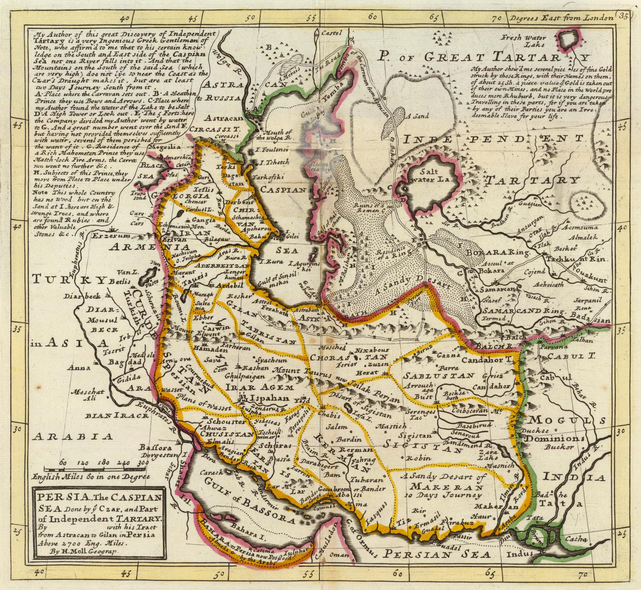 Persia, Caspian Sea, part of Independent Tartary. By H. Moll Geographer. (Printed and sold by T. Bowles next ye Chapter House in St. Pauls Church yard, & I. Bowles at ye Black Horse in Cornhill, 1736)